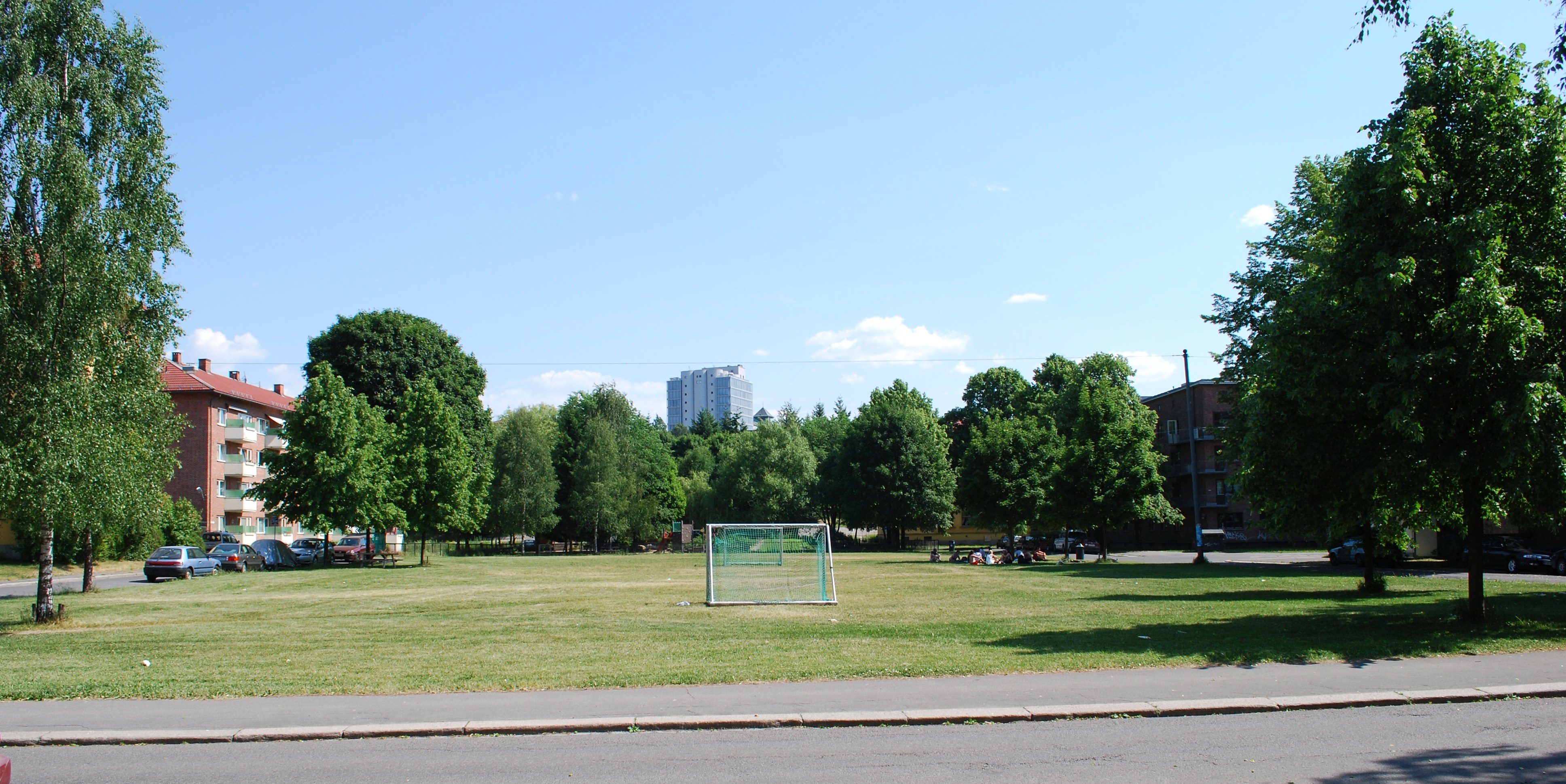 Haarklous plass, Torshov, Oslo